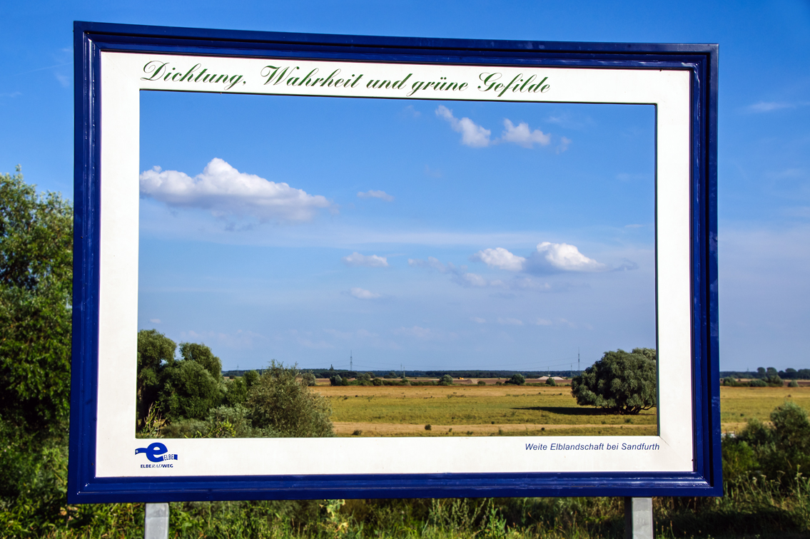 Wide Elbe landscape near Sandfurth at the skipper monument